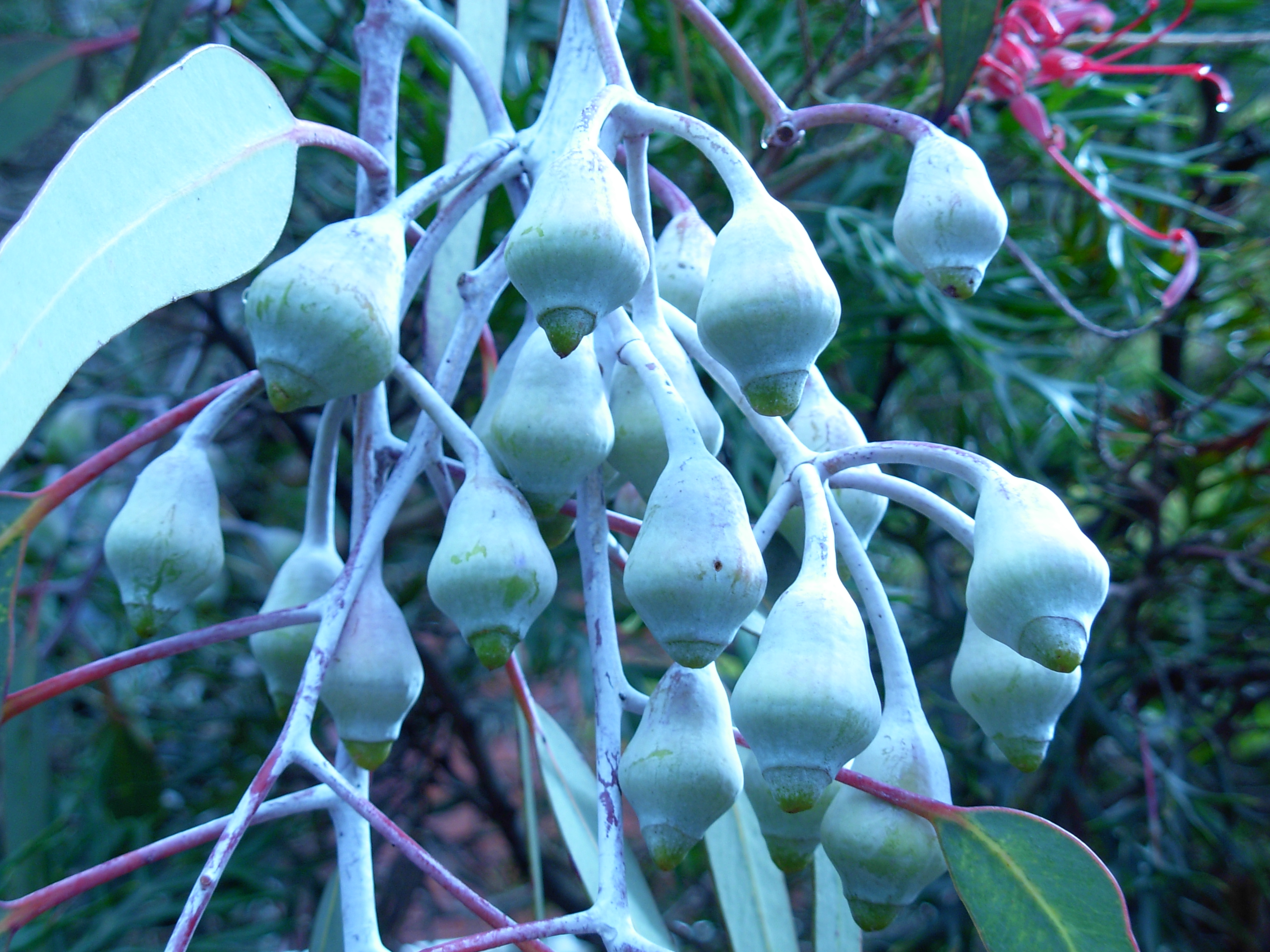 Eucalyptus caesia buds before flower emerges